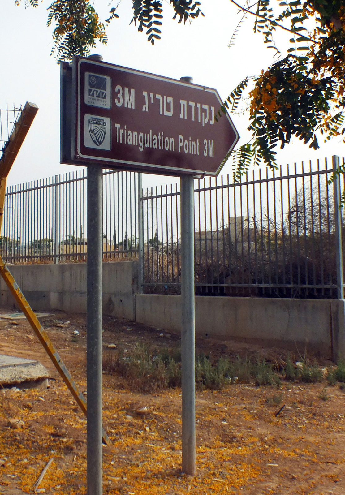 Sign at Triangulation Point 3M of the Israeli Cassini Soldner measuring system outside Ofakim.